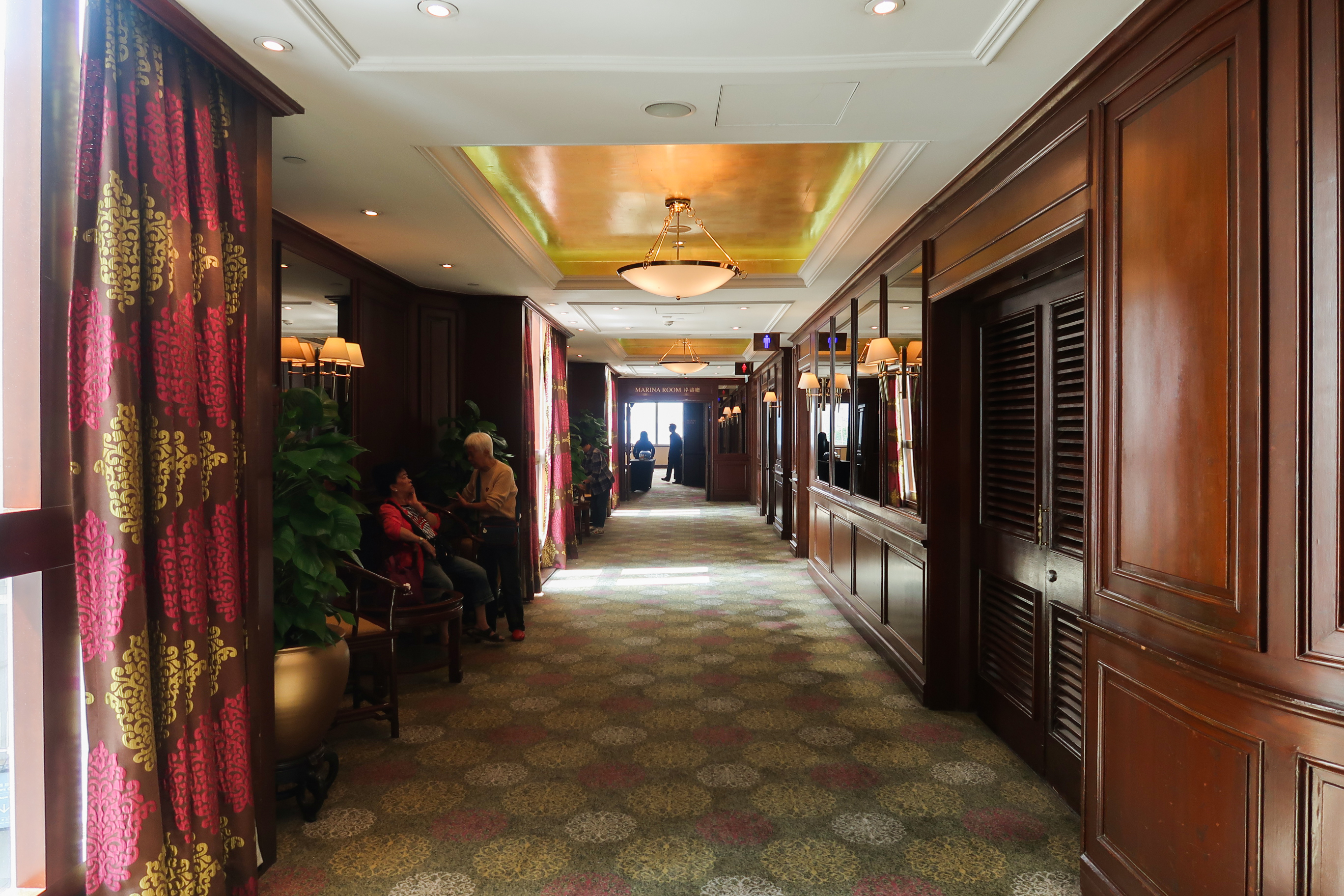 The Excelsior Hong Kong Level 2 access to Marina Room